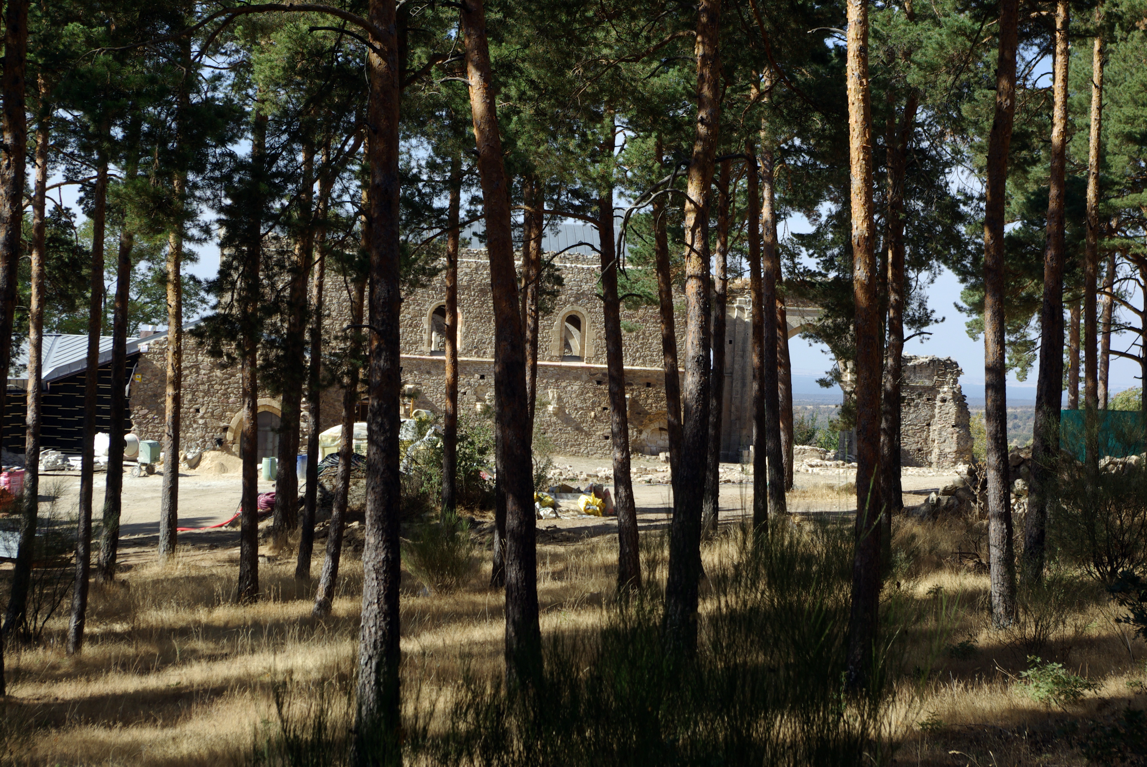 Ruins of Saint Mary monastery in Collado Hermoso (Segovia, Spain).